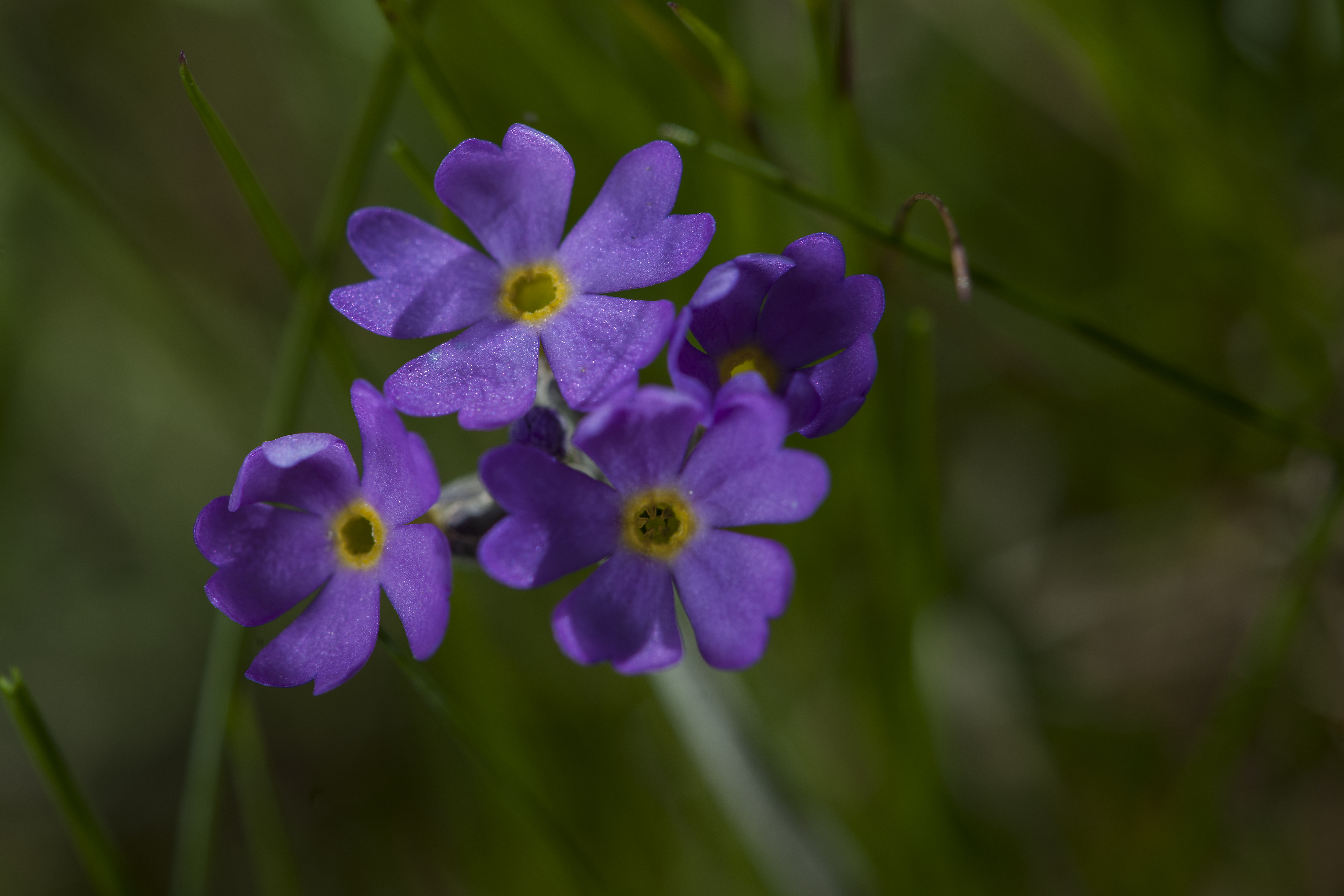 Fjellnøkleblom Primula scandinavica – de ville nøkleblomene i låglandet er gulblomstra, men alle fjellartene er lilla. Scandinavian Primrose Primula scandinavica and the other alpine primroses have violet flowers as opposed to the yellow lowland species. Foto: Åge Hojem / NTNU Vitenskapsmuseet Photo: Åge Hojem / NTNU University Museum